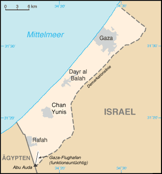 A map of the Gaza Strip showing key towns and neighbouring countries.